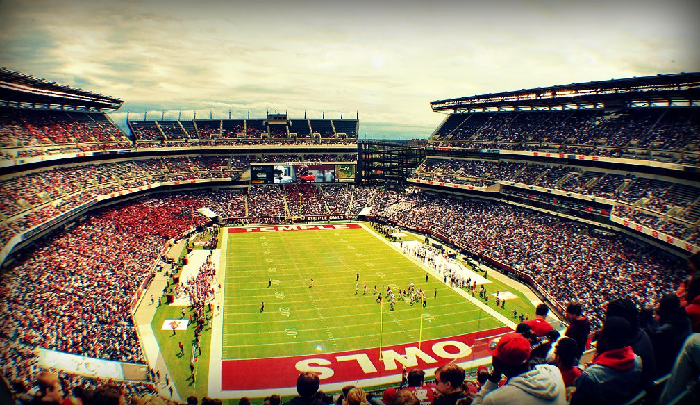 Temple University hosts Penn State for a football game on September 17, 2011 at Lincoln Financial Field in Philadelphia.